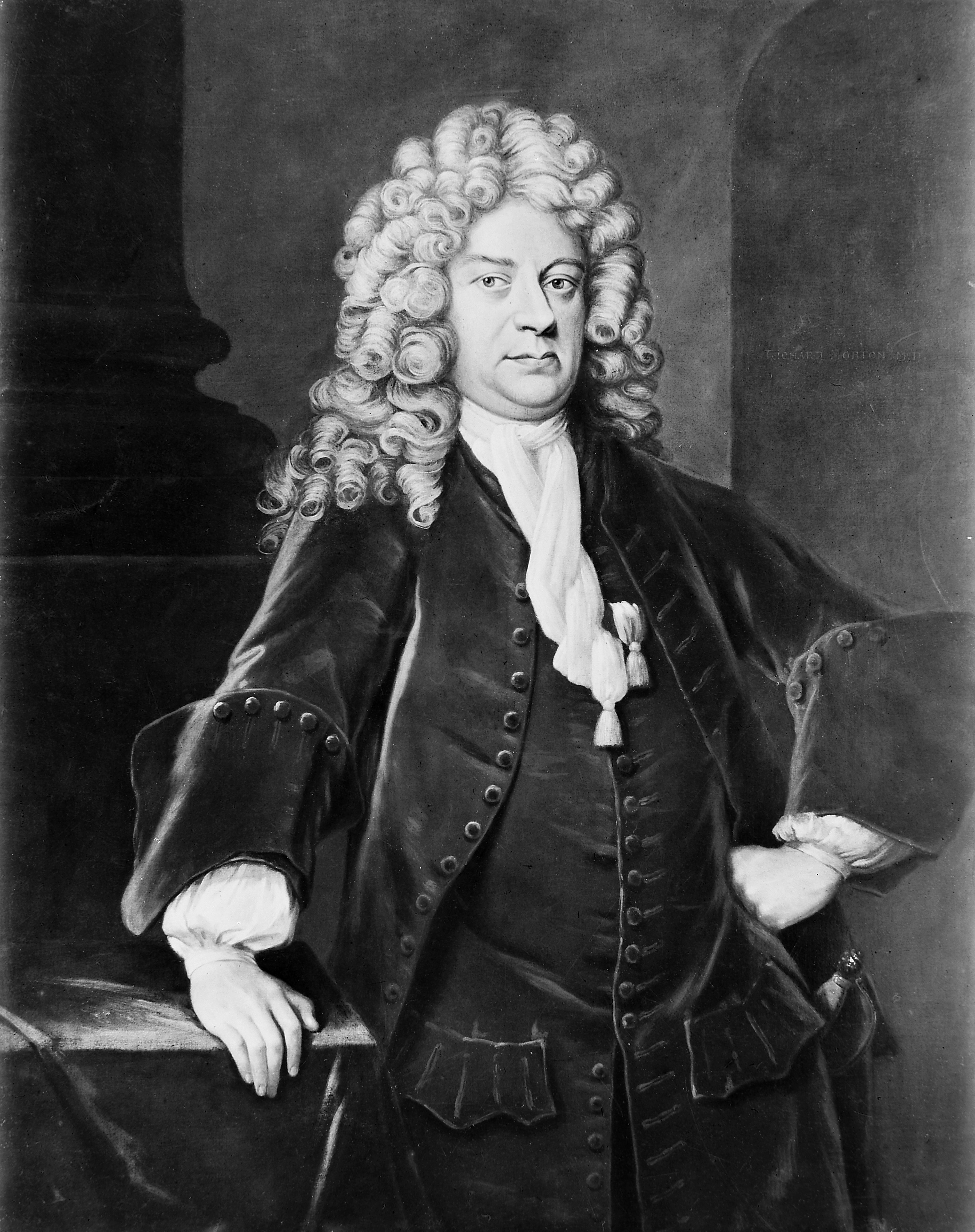 Portrait of Richard Morton. Wellcome Images Keywords: Johann Clostermann; W.C. Morton